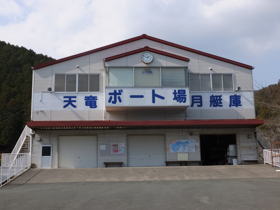 Tsuki Boat House of Tenryu Rowing Course